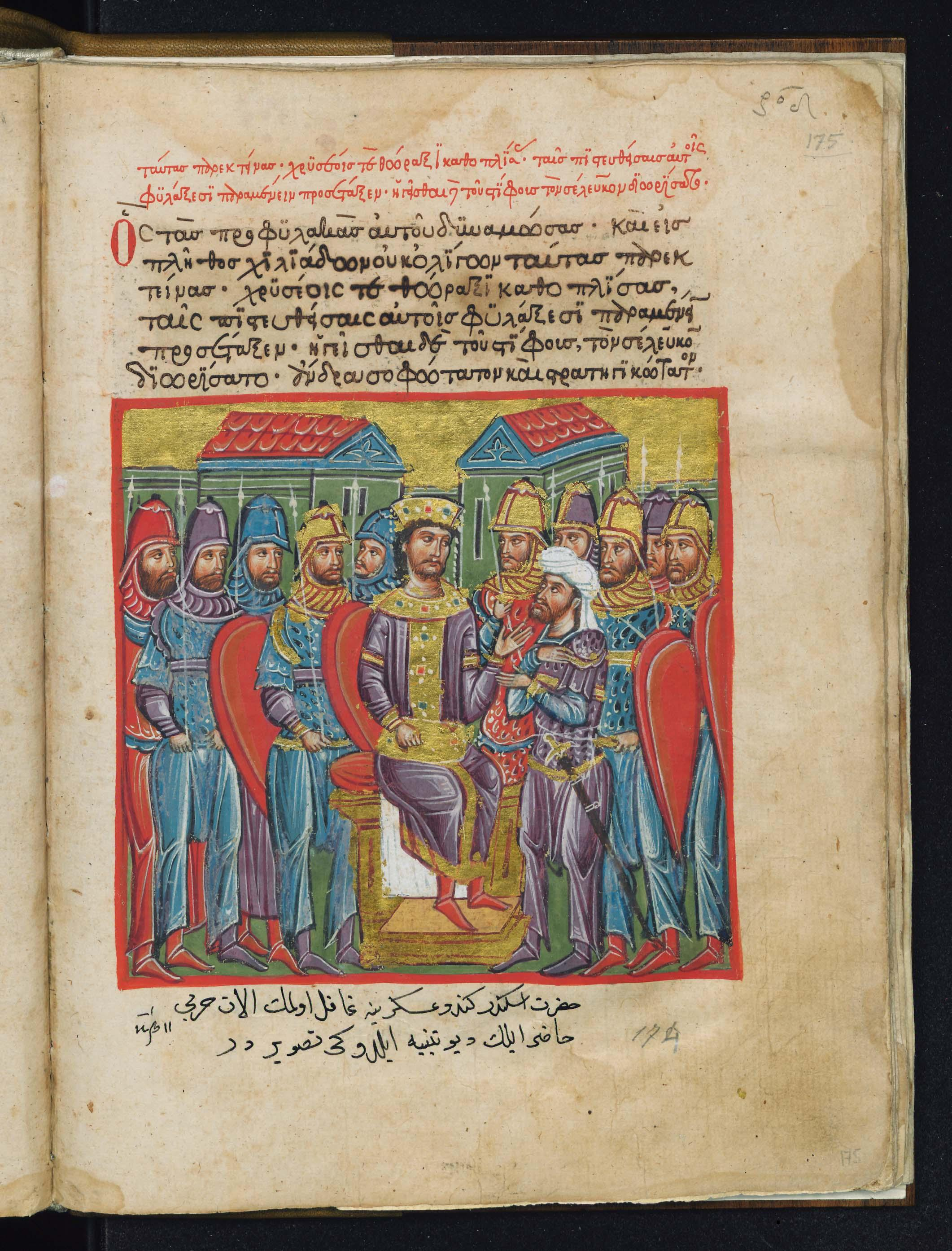 A fourteenth-century miniature Greek manuscript depicting scenes from the life of Alexander the Great. Alexander reinforced his outposts with many thousands of men, armed with golden cuirasses, commanded the most reliable to remain and guard and proclaimed Seleucus as the head of the army. Alexander here is depicted on the throne, in the centre of the illustration, giving the command to Seleucus who is shown wearing a turban. To the left and right of the throne numerous soldiers are depicted wearing the bracca (βράκκα) trousers and armor. The entire scene is depicted entirely in Byzantine fashion of the late Byzantine period (1204-1453). “Alexander Romance” in S. Giorgio dei Greci in Venice.’’